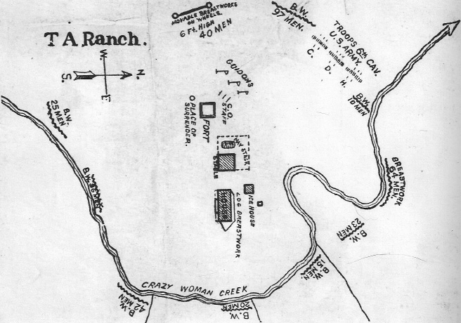 Historical Drawing of the TA Ranch at the time of the Johnson County War